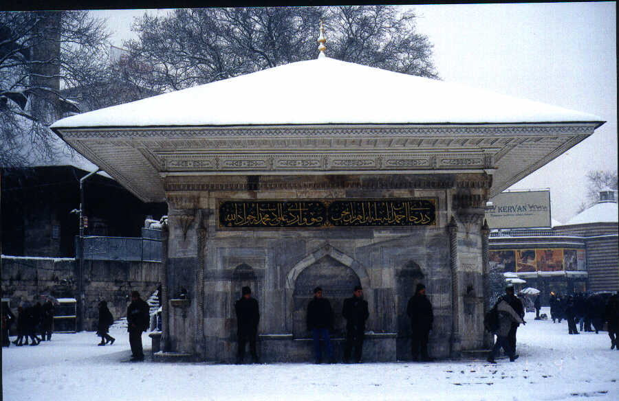 Ahmet III Fountain in Uskudar Square, Istanbul